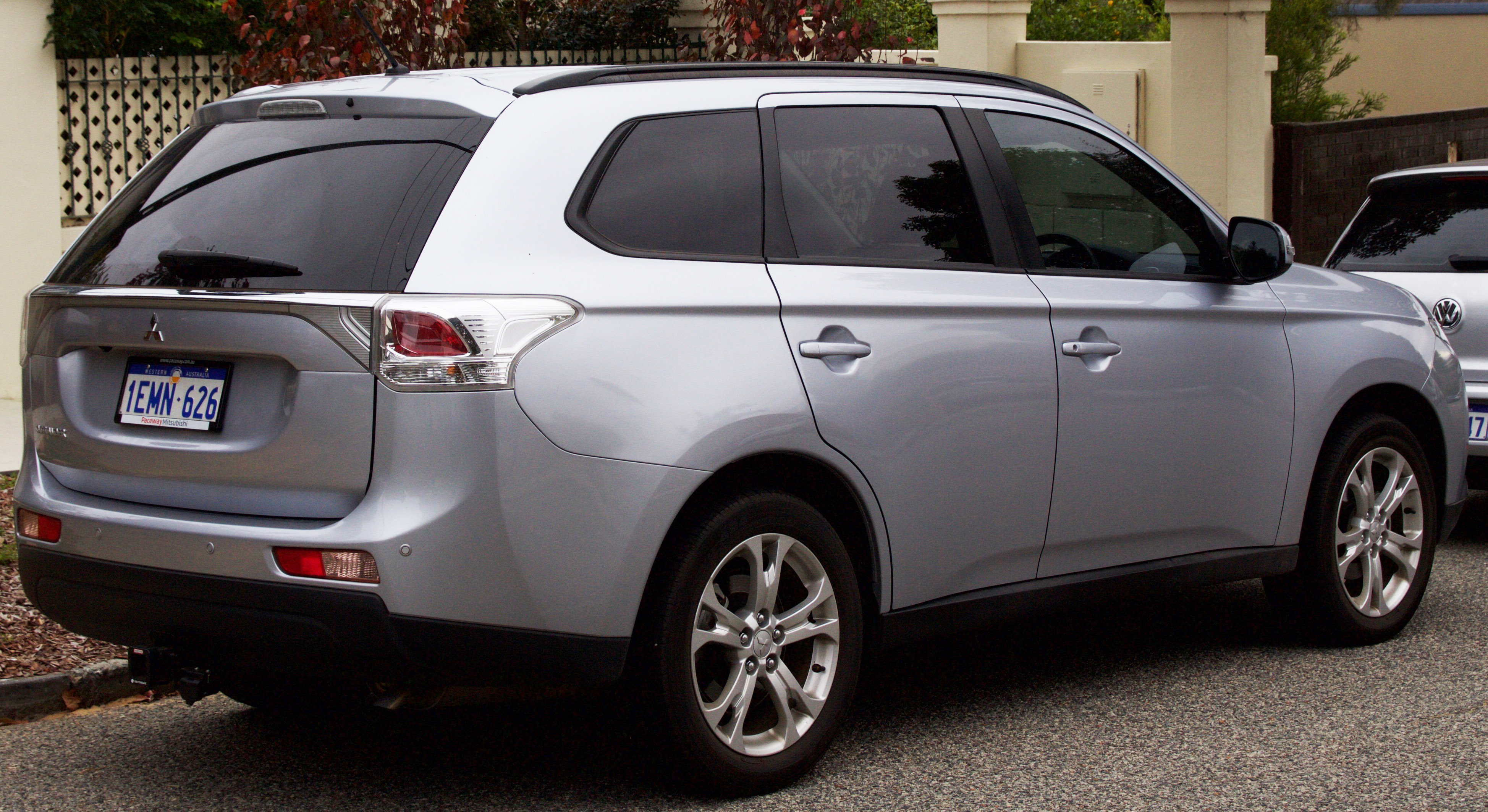 2014 Mitsubishi Outlander (ZJ MY14) LS 2WD wagon. Photographed in West Leederville, Western Australia Australia.